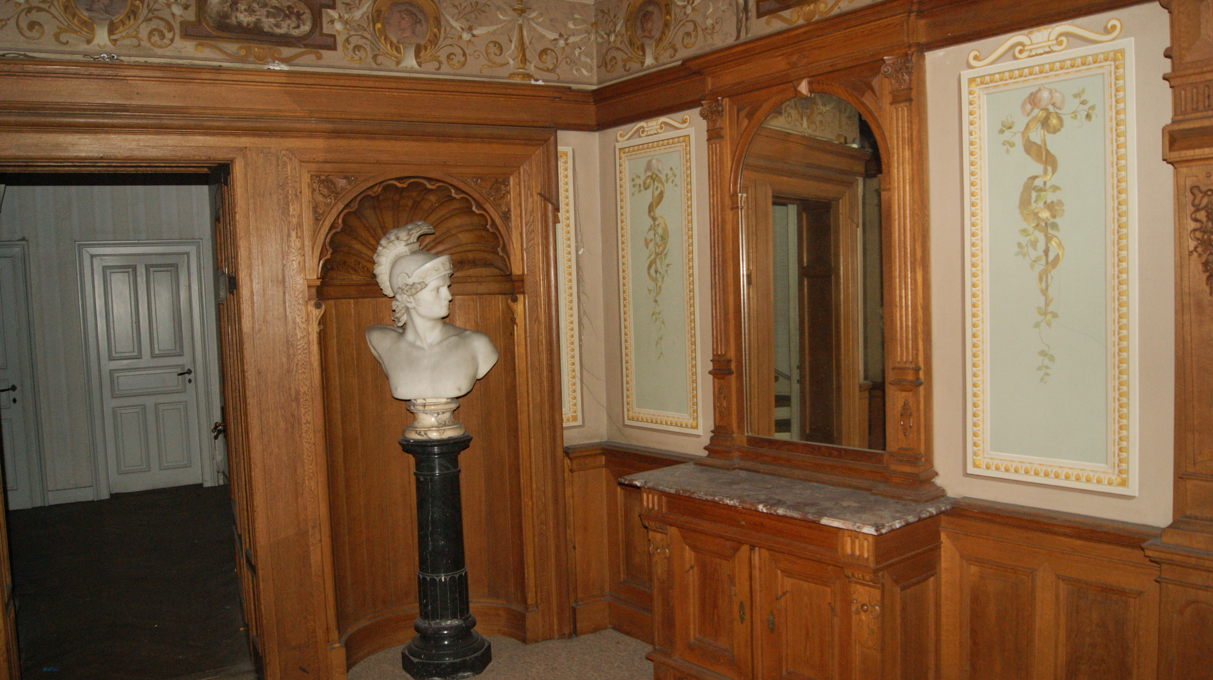 Statue in the Villa Ivan Rosenthal, Radetzkystraße No. 1 in Hohenems, Vorarlberg, Austria. Built in 1890, main building with hipped and cross-gabled roof, cube-shaped with klassizisierender entrance section, side wings, Wirtschaftstrakt with half-timbered.